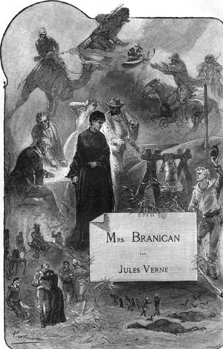 An ilustration from the novel "Mistress Branican" by Jules Verne painted by Léon Benett.